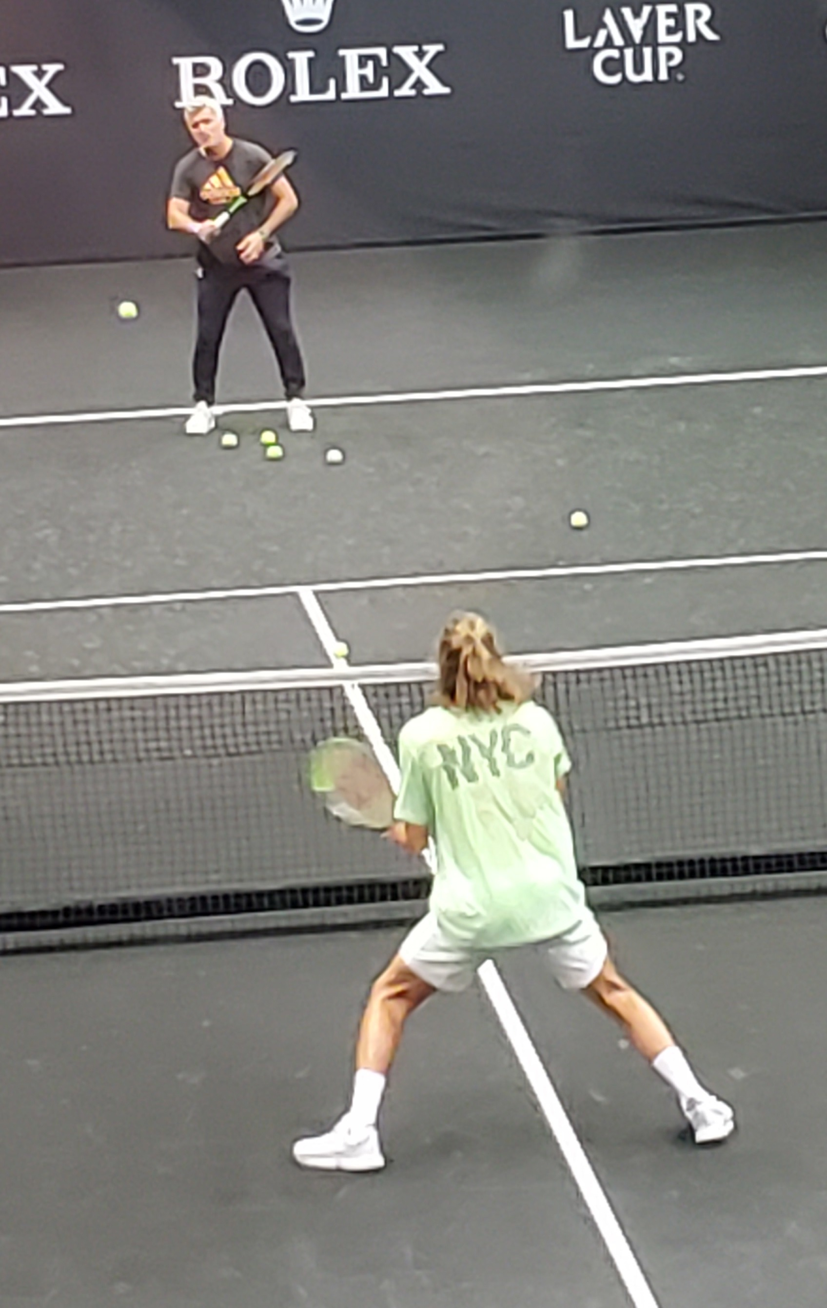 Laver Cup Stefanos Tsitsipas training with his father